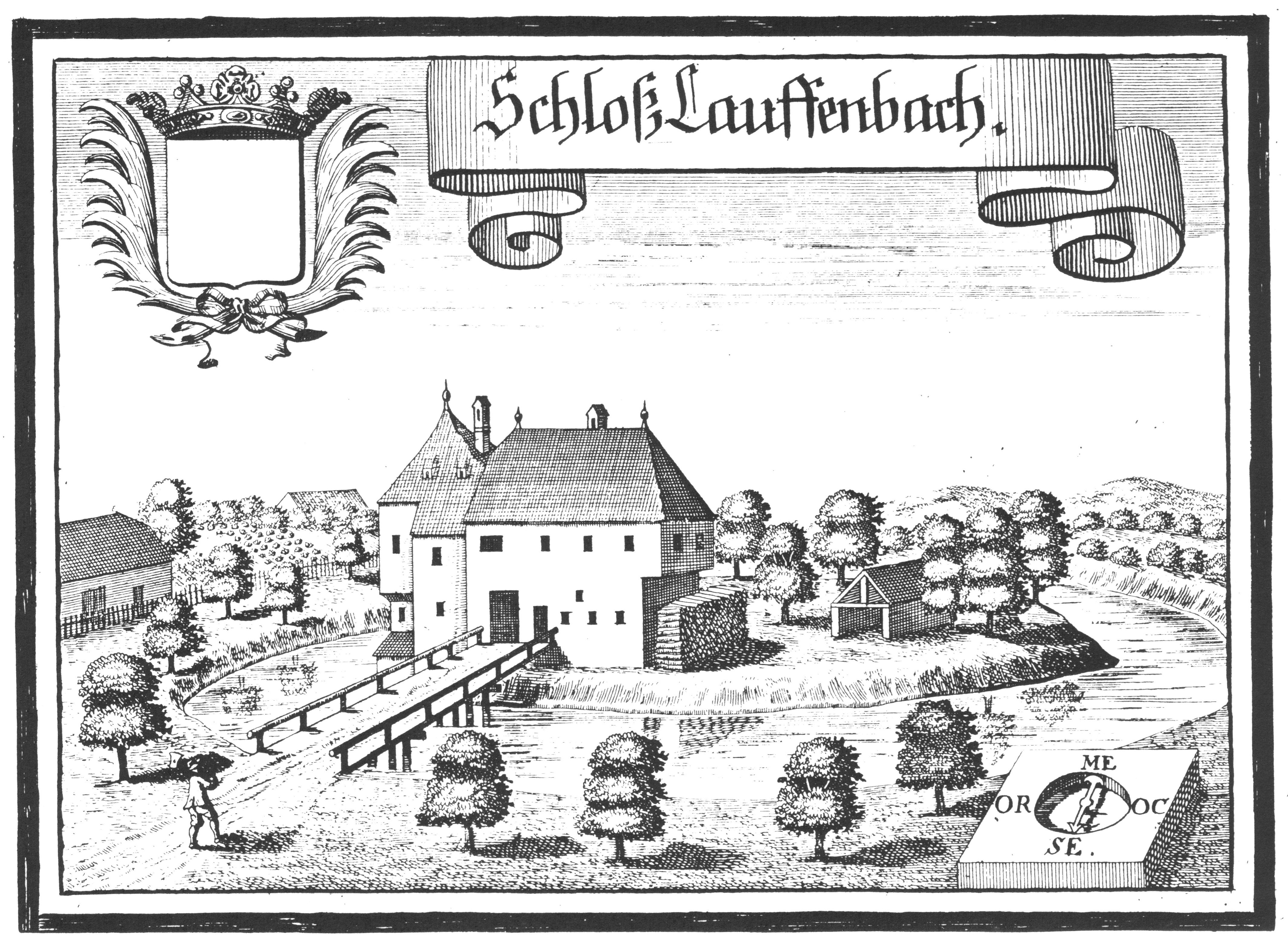 Michael Wening: Engraving of Laufenbach castle, Upper Austria (ca. 1721)